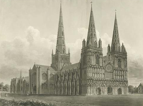 Showing a north west view of the Cathedral.Inscribed 'To the Honble. and Right Rev. James Cornwallis D.D., Lord Bishop of Lichfield and Coventry, this North West View of the Cathedral Church of Lichfield is by Permission most humbly dedicated by his Lords